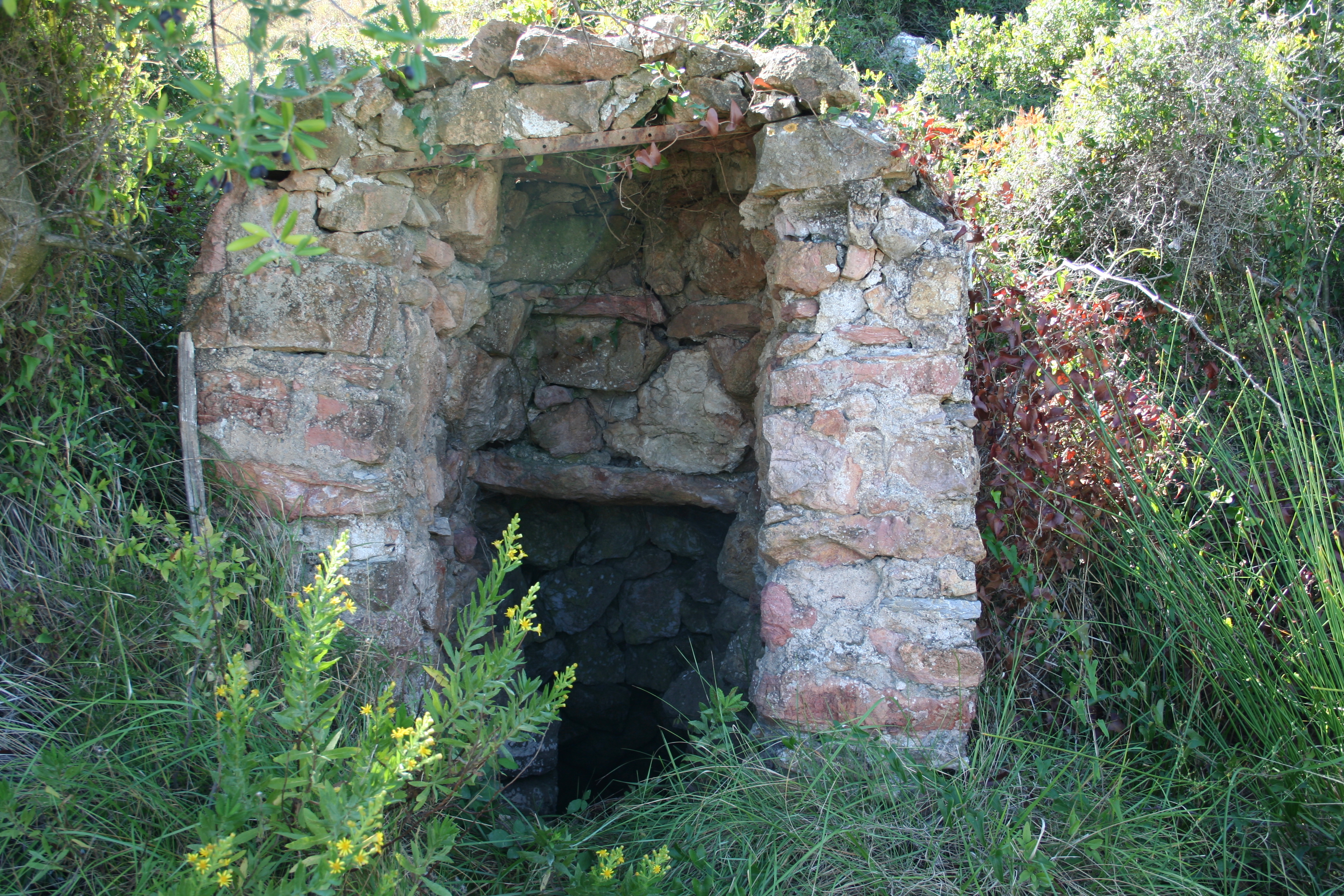 The edge on the Paret Antique of Fitou